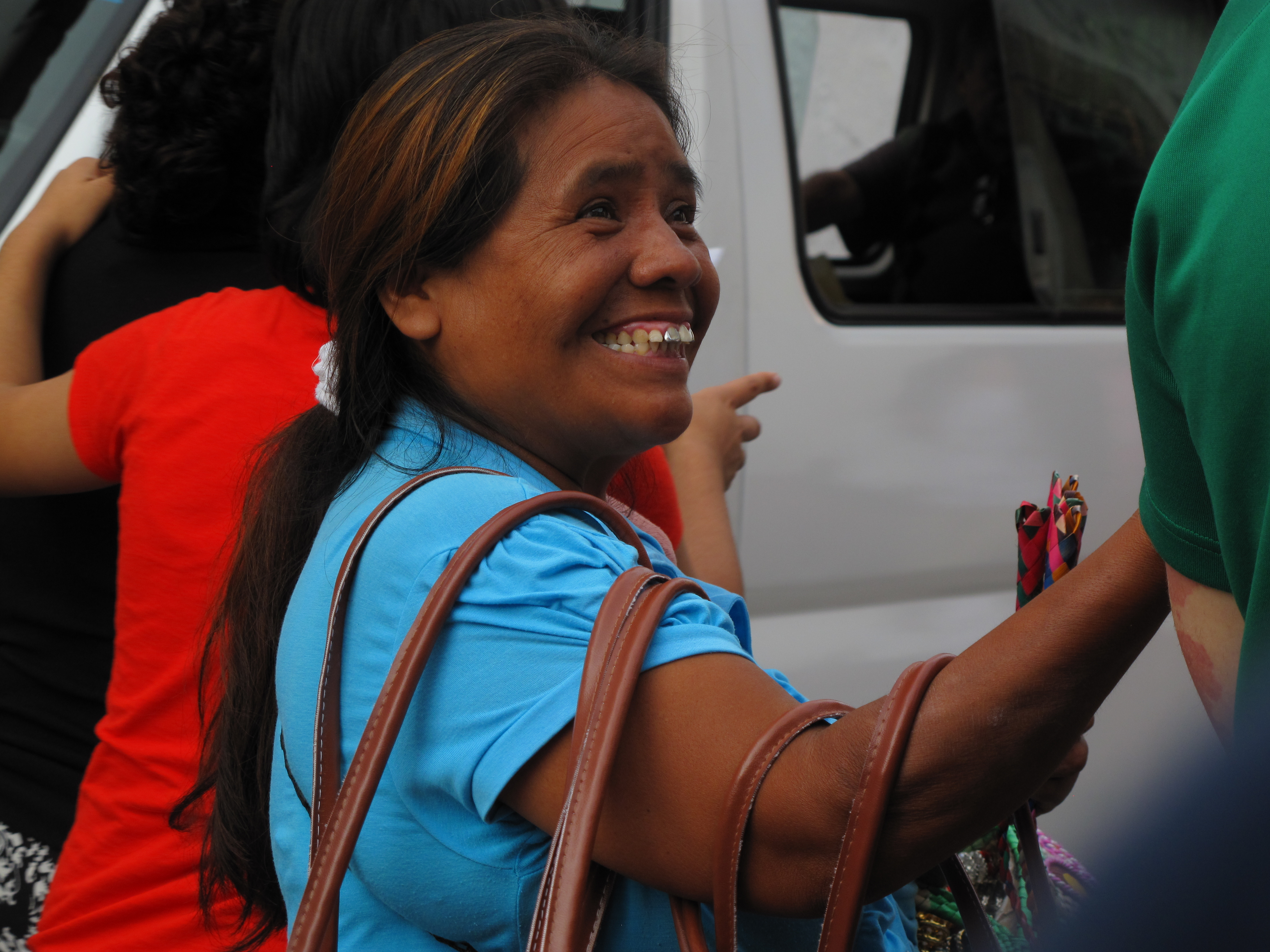 A woman from Guerrero trying to sell her craftwork to some turists.